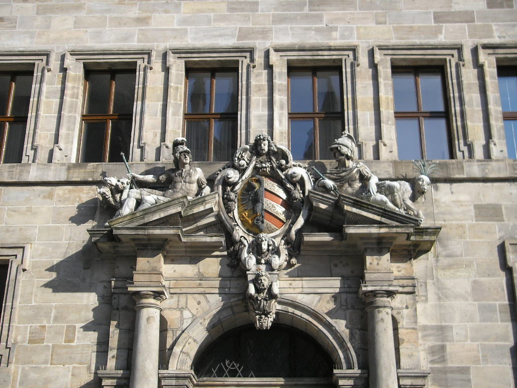 Image of coat of arms on the facade of the Rathaus (city hall) of Nürnberg, Bavaria.